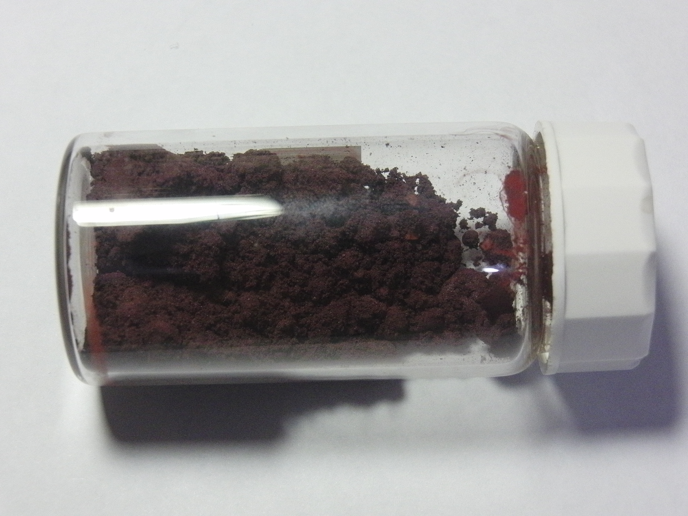 Red phosphorus